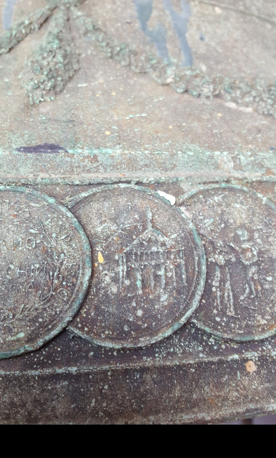 Decorations of the bells of the Bell tower in Caorle